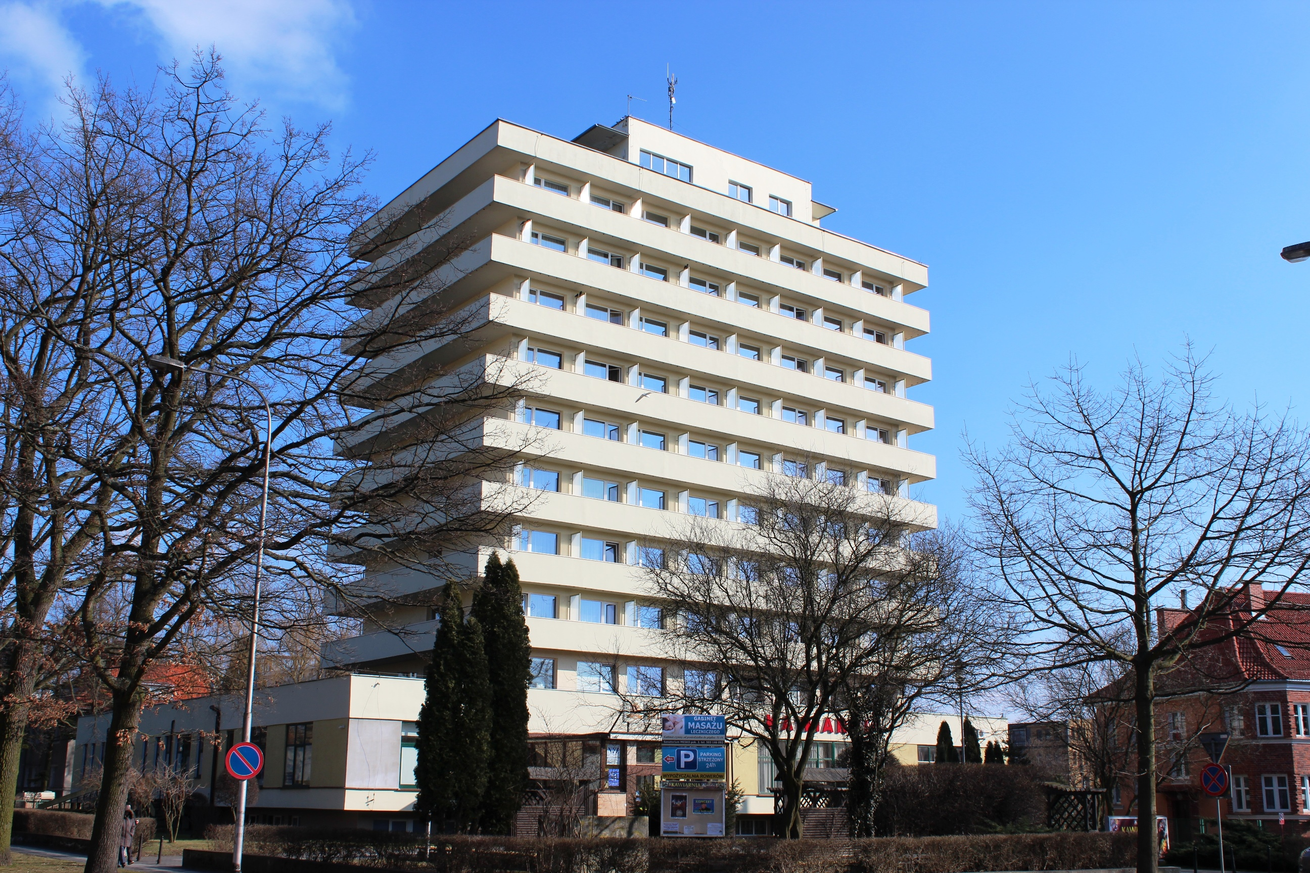 Mesko Sanatorium in Kołobrzeg